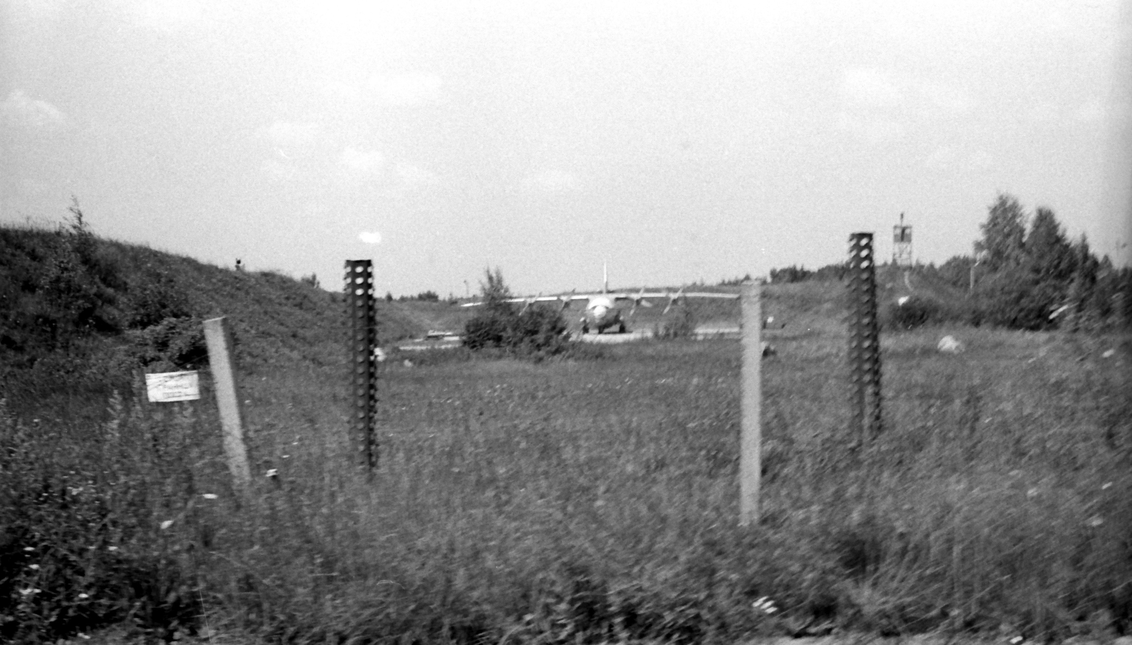 Zokniai military airport 1990 in Šiauliai, Lithuania